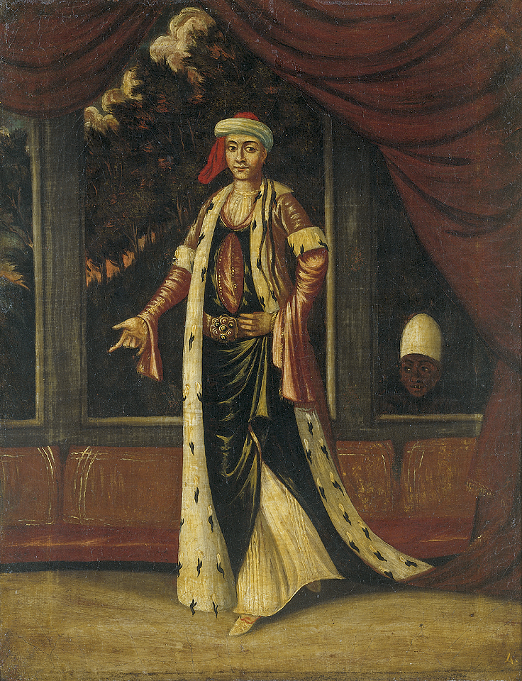 Portrait of the mother Sultan. On the right, the head of a black eunuch of the harem. Part of a series of paintings with Turkish subjects from Turkey to the Netherlands by Cornelis Calkoen the ambassador and his cousin Nicholas in 1817 presented to the Executive Board of the Levant Schenardi Commerce in Amsterdam.